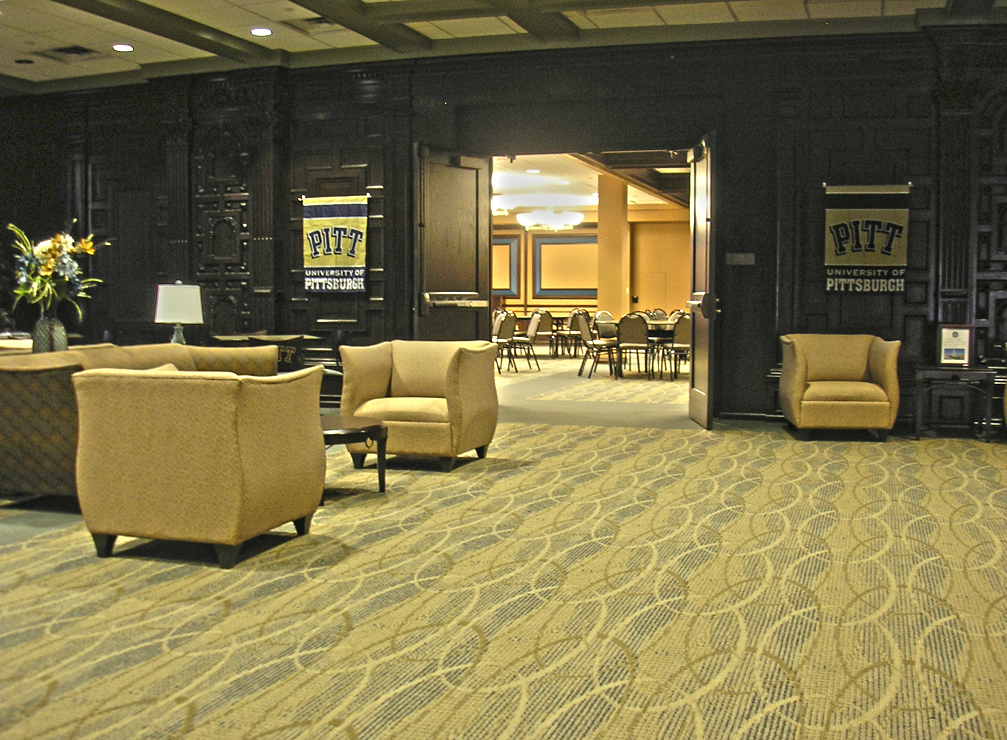 O'Hara Student Center at the University of Pittsburgh